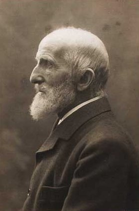 Danish architect Vilhelm Valdemar Petersen, known as Vilhelm Petersen (1830-1913)